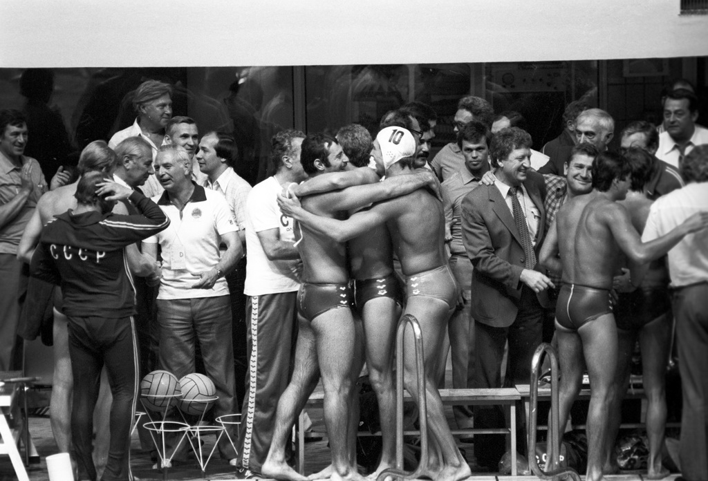 “Members of USSR National Water Polo Team at Olympiad”. 22nd Summer Olympic Games of 1980. The Swimming pool of the Olympiisky Sport Complex. A match between the USSR national water polo team and Yugoslavian national water polo team. Fans congratulating Soviet sportsmen on their victory.